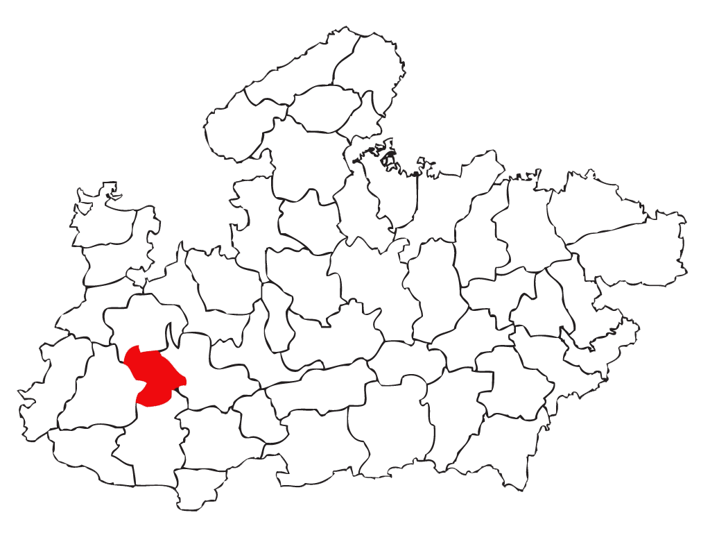 This image highlights the location of Indore (City and District) (in red) in the state Madhya Pradesh.